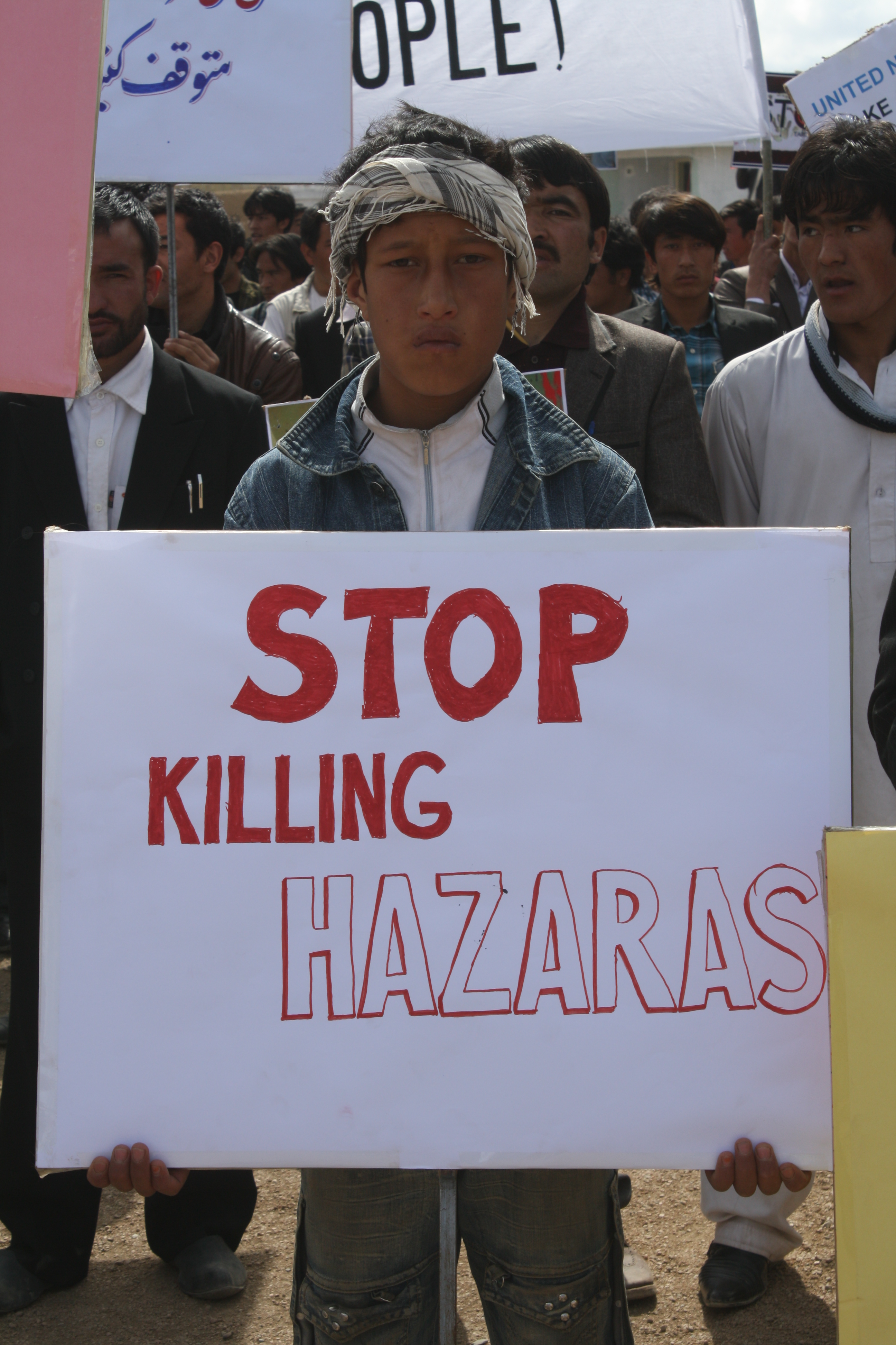 A kid hold placard, in a demonstration in Bamyan Province of Afghanistan, against the killings of Hazara people in Quetta city of Pakistan